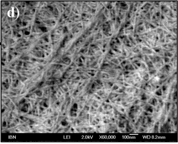 A short-peptide-based hydrogel matrix, capable of holding about one hundred times its own weight in water. Developed as a medical dressing. Original caption (also CC-BY 4.0)ː FESEM [field emission scanning electron microscopy] analysis revealed a dense mesh of fibrous network. The thickness of the fibers was on the order of tens of nm, mimicking the fibrous microenvironment found in the ECM [extracellular matrix].